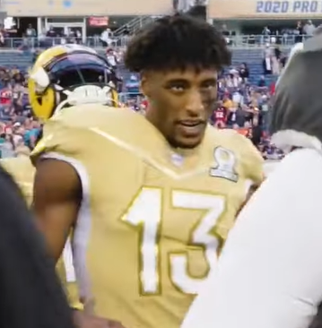 Michael Thomas in 2020